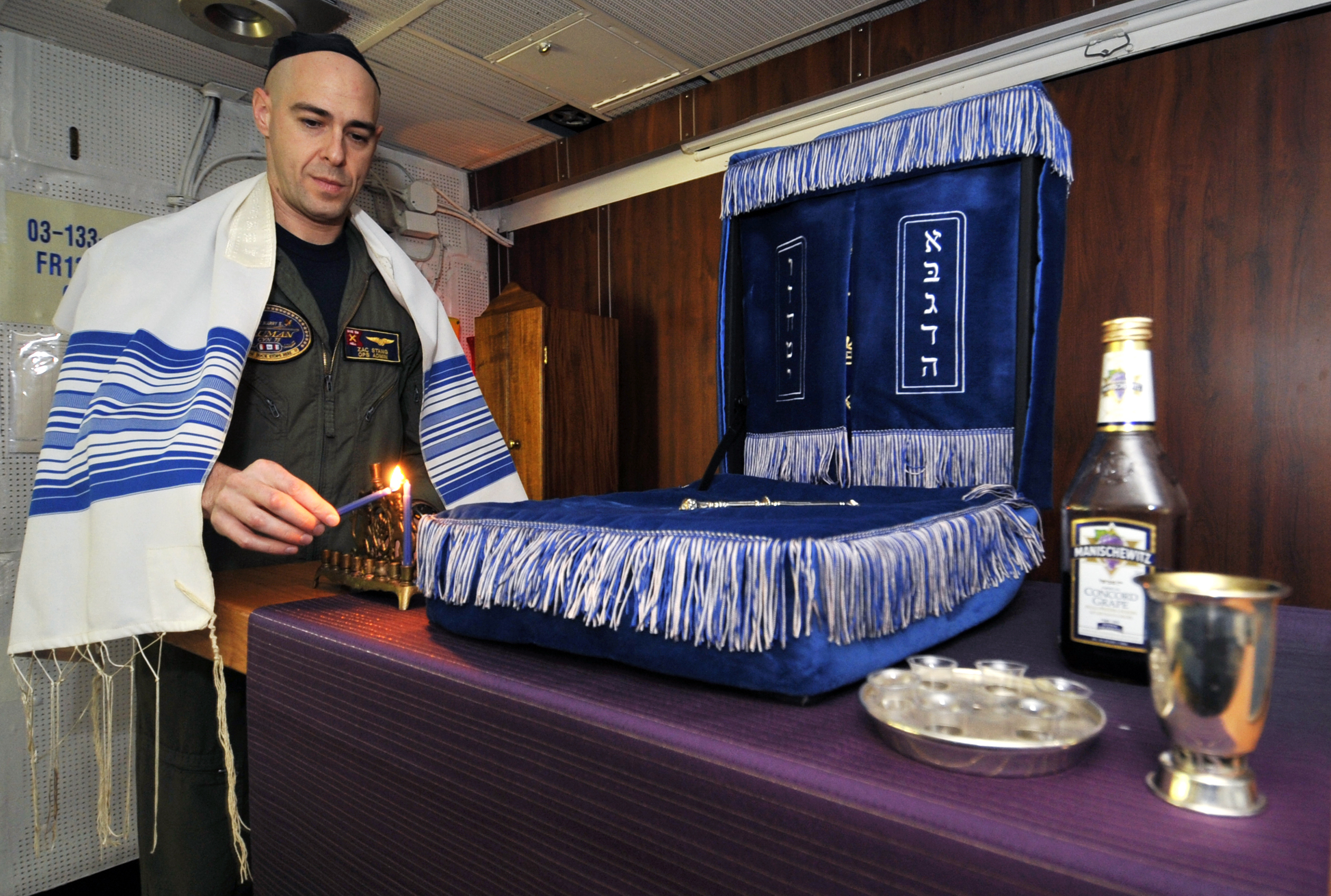 ATLANTIC OCEAN (Dec. 11, 2009) Lt. Zac Stang, operations administrator and Jewish lay leader of the Nimitz-class aircraft carrier USS Harry S. Truman (CVN 75), lights a candle celebrating the 1st night of Hanukah in the ship's chapel. Harry S. Truman is underway conducting carrier qualifications. (U.S. Navy photo by Mass Communication Specialist 2nd Class Kilho Park/Released)